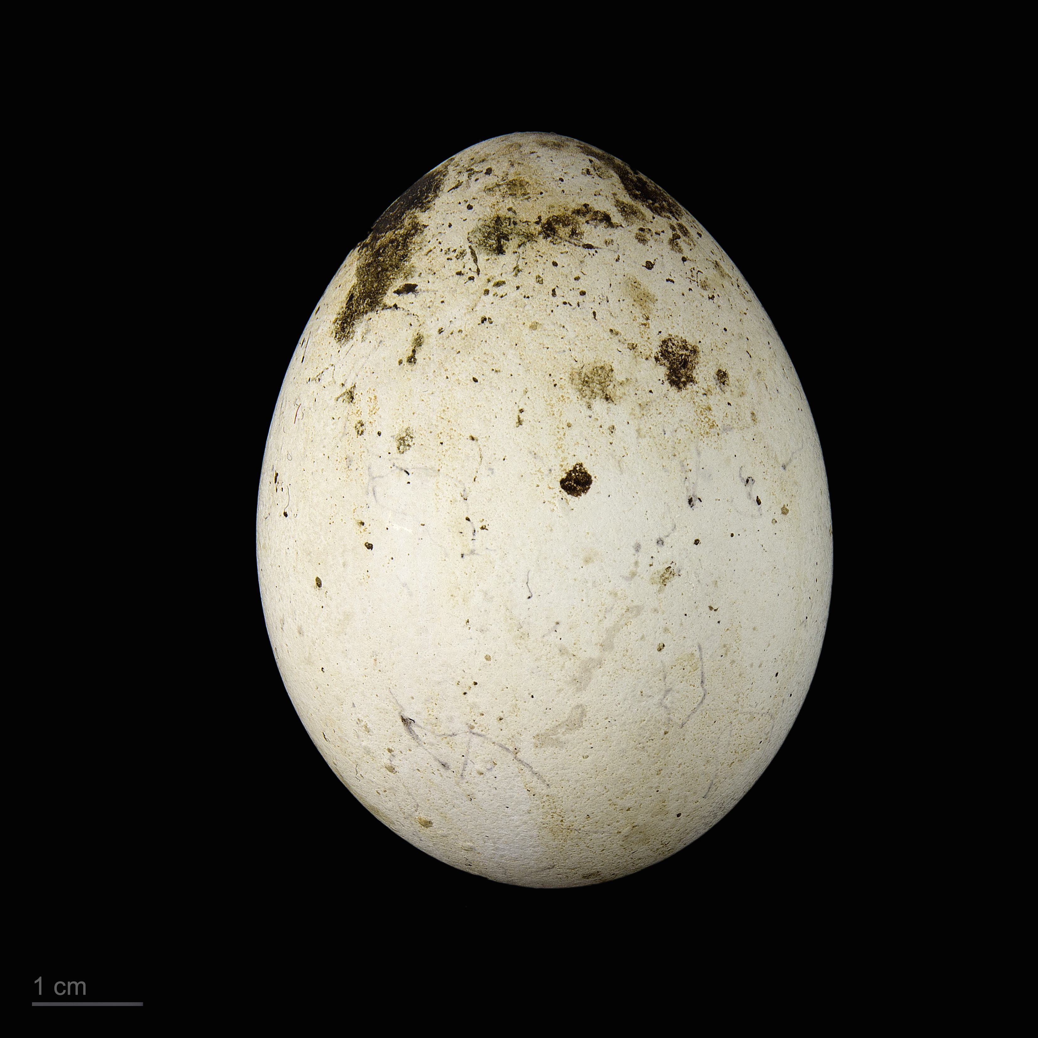 Eggs of red kite collection of Jacques Perrin de Brichambaut.